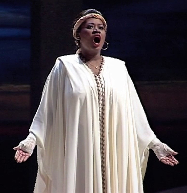 Michèle Crider filmed at Semperoper Dresden, performing in the opera Aida by Verdi. Amongst the sopranos Eddy Seesing investigated posture, pose and clothing as characterizations of professional profile. During the photo rehearsal each soprano is followed closely with a video camera, trying to isolate them. From these video recordings a fragment of each soprano is selected varying in length between 30 seconds and one minute. Seesing concentrated on the focal point of the drama, the soprano's: Expression, Mimicry, Facial distortions during vocal climaxes, Postures and Gesticulation. To emphasize these elements slow motion is used - 10 times slower than the normal speed. The short pieces thus created are constantly repeated in a loop. Six video's are simultaneously projected onto the exhibition space's walls, one per soprano. A sound fragment of every soprano each with a maximum duration of 3 minutes is played in the installation separate from the video images.